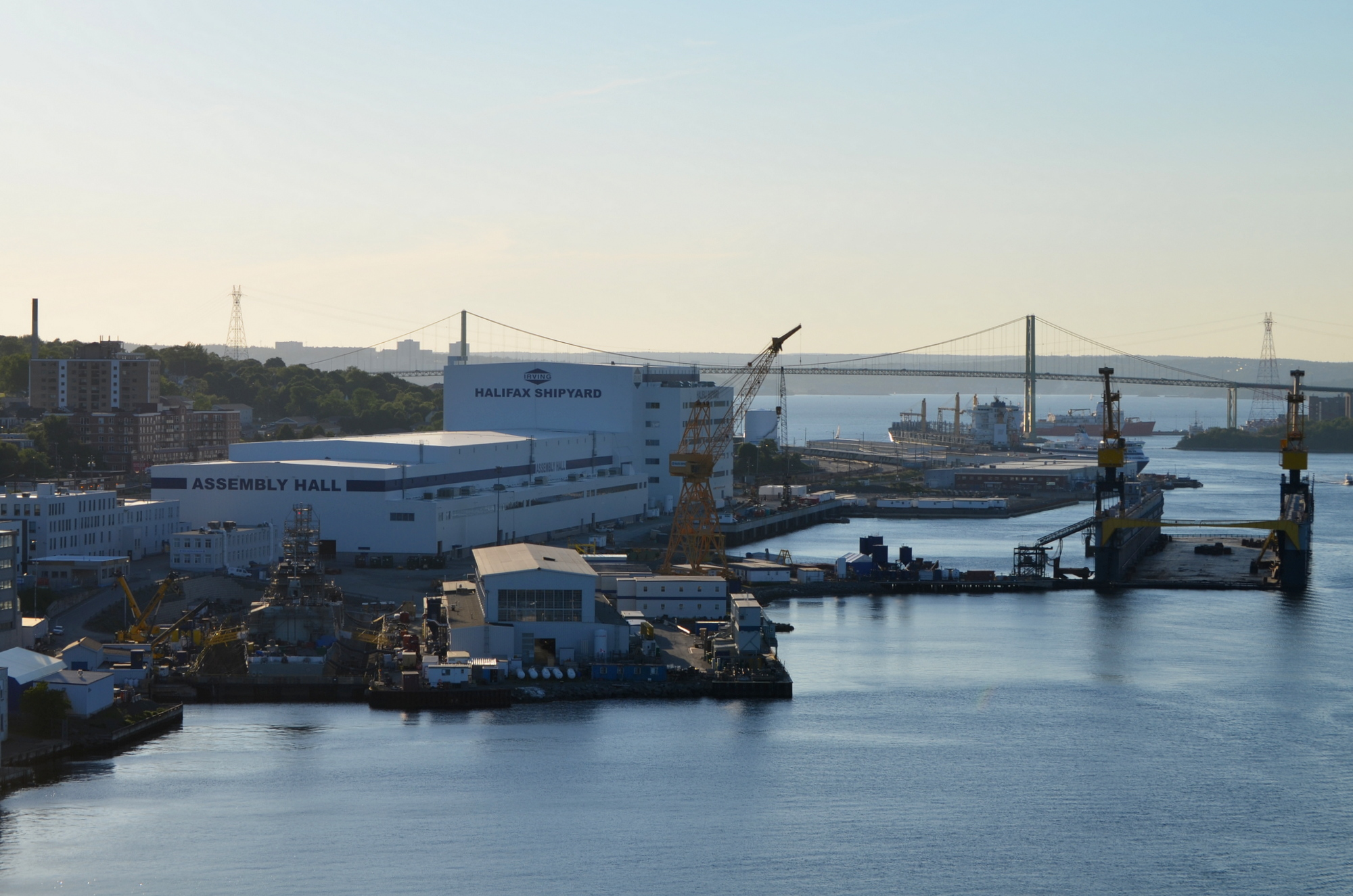 The Halifax Shipyard viewed from the Macdonald Bridge cycle lane.